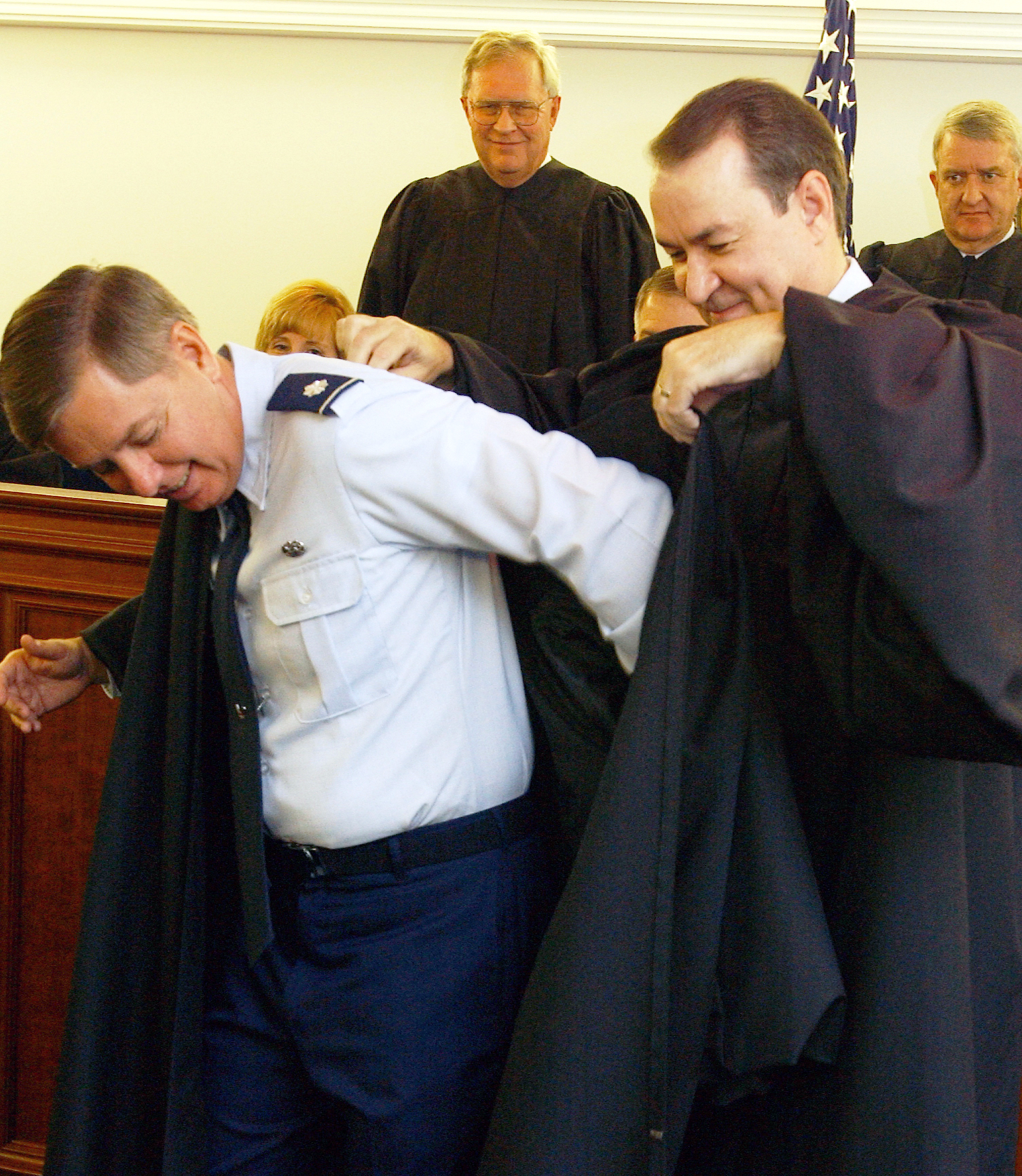 BOLLING AIR FORCE BASE, D.C. -- Col. James Van Orsdol (right) helps Lt. Col. Lindsey Graham don a judge's robe in a courtroom here Nov. 4, after Graham was sworn in as a new judge for the Air Force Court of Criminal Appeals. Graham, an Air Force reservist, is a U.S. senator from South Carolina in civilian life. Van Orsdol is a former chief judge for the court. (U.S. Air Force photo by Staff Sgt. Amber K. Whittington)